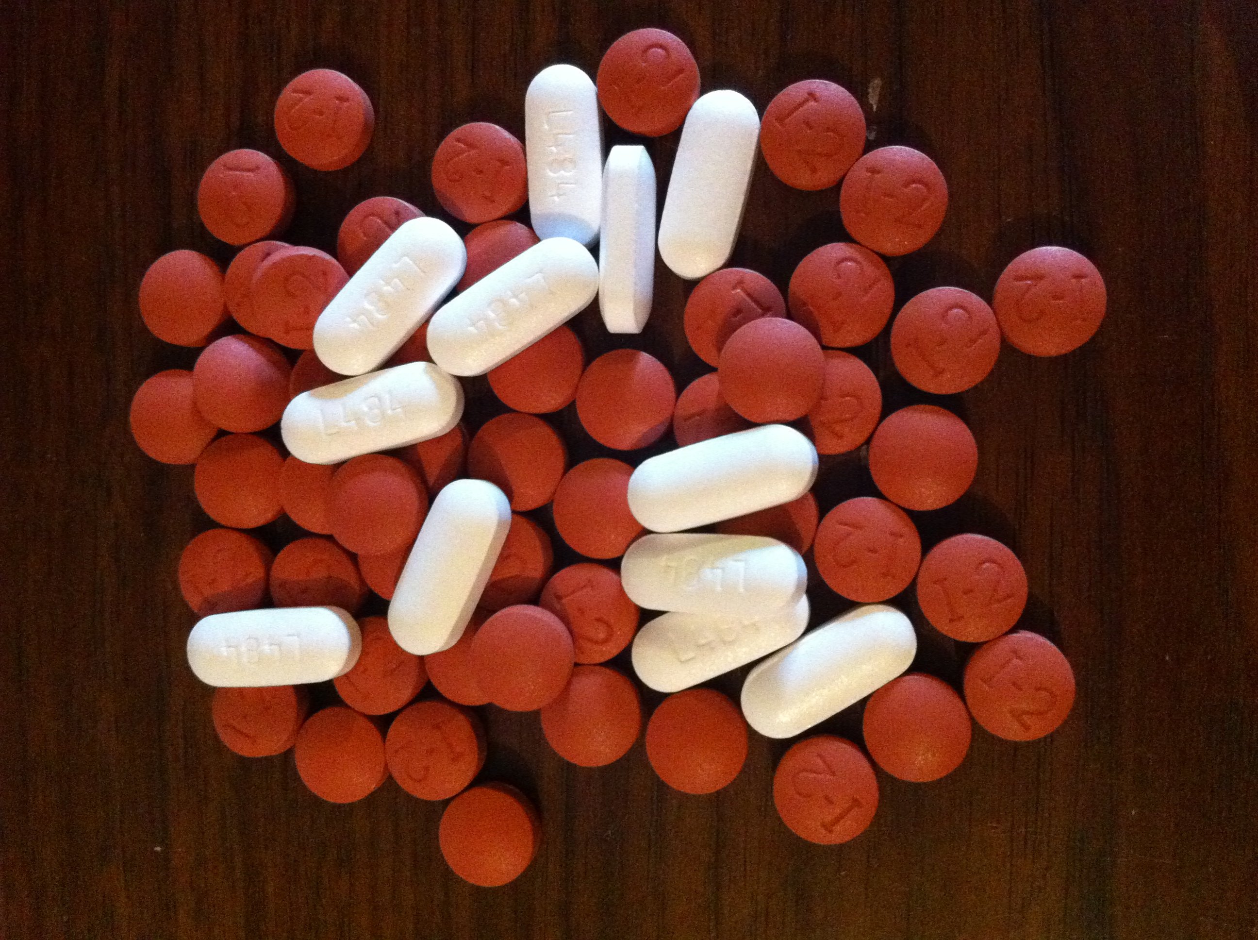 Equate Ibuprofen Pills and Meijer Aceteminophen Caplets